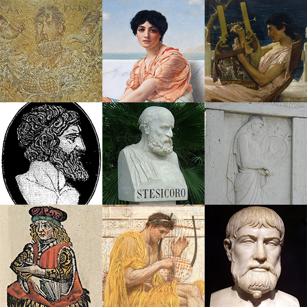 Alcman, Sappho, Alcaeus, Anacreon, Stesichorus, Ibycus, Simonides, Bacchylides, Pindar